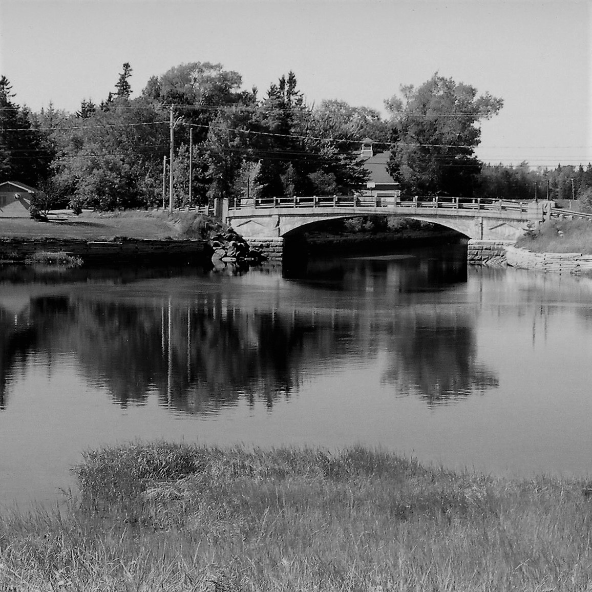 Bridge at Port Elgin, New Brunswick. Date of image is approximate.